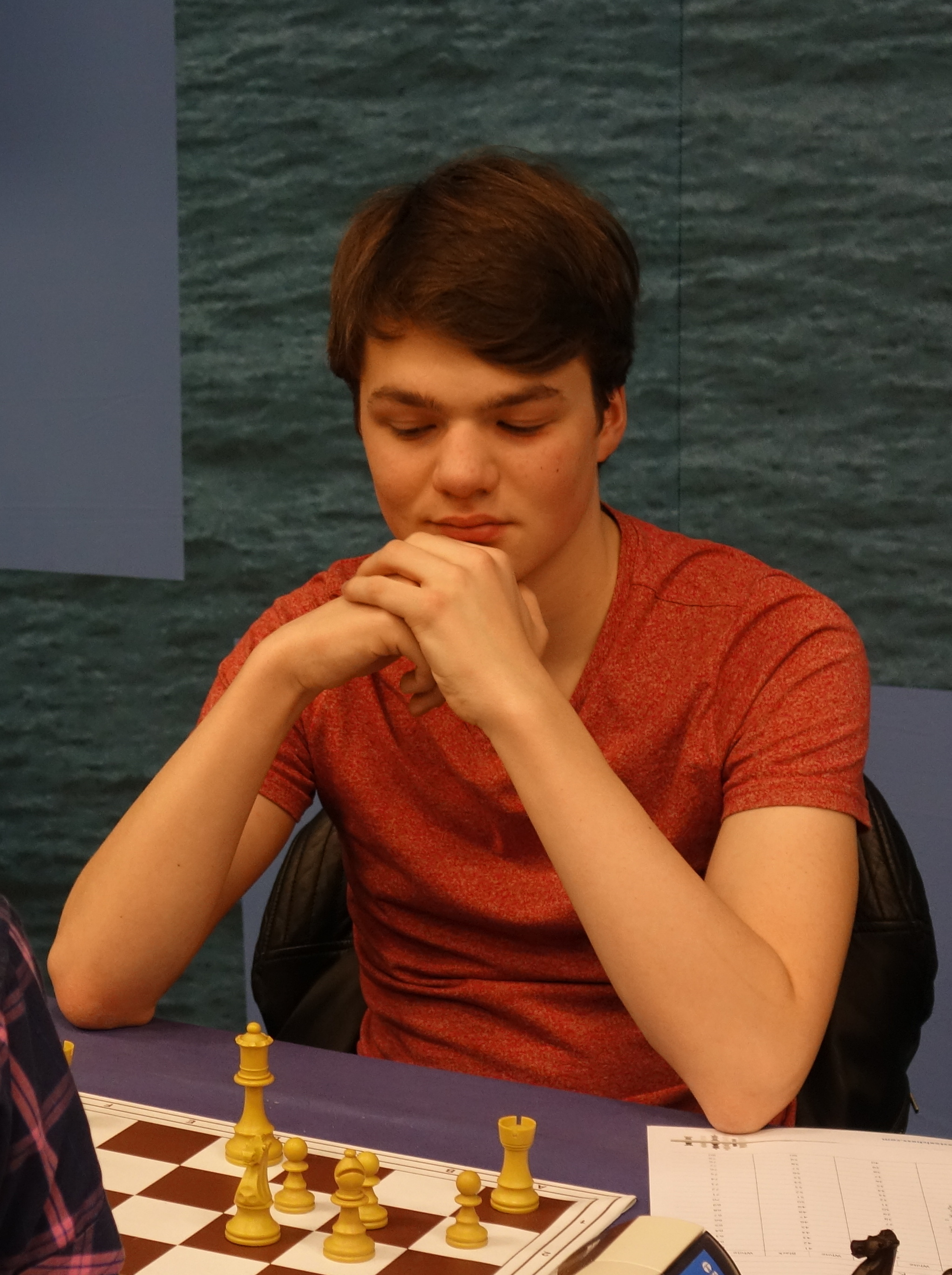 Tata Steel Chess Tournament 2017, Wijk aan Zee (the Netherlands), 28 January 2017. Amateur group: Lucas van Foreest vs. Praggnanandhaa Rameshbabu.